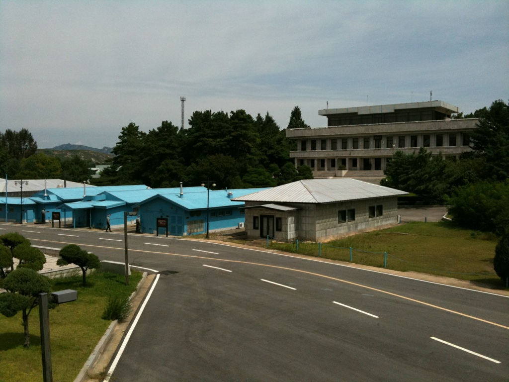 Panmunjeom from south. Aug 2009.